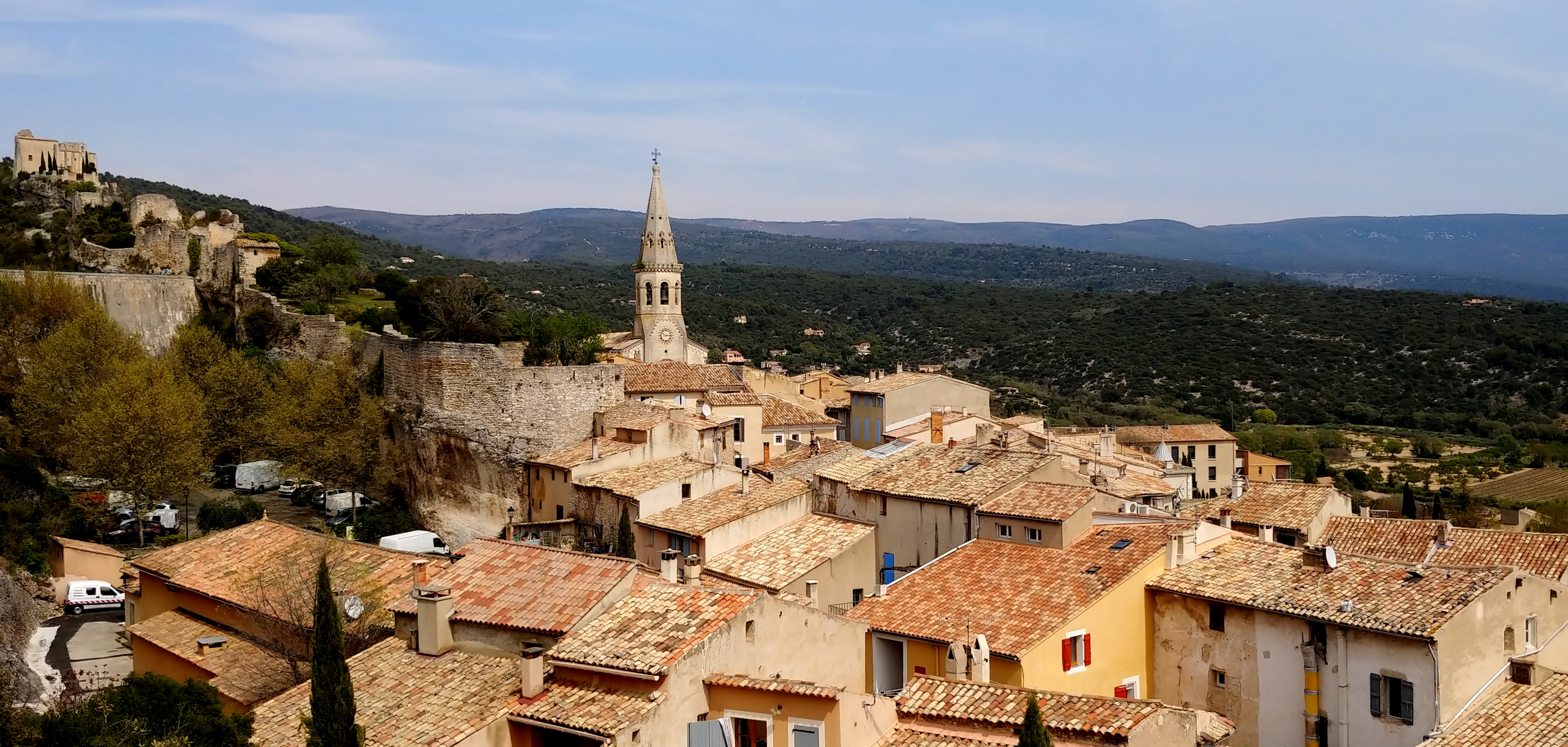 Saint-Saturnin-lès-Apt General View, Vaucluse, France